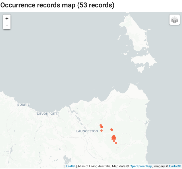 Occurrence records (distribution) of C. diemensis subsp. diemensis from Atlas of Living Australia.